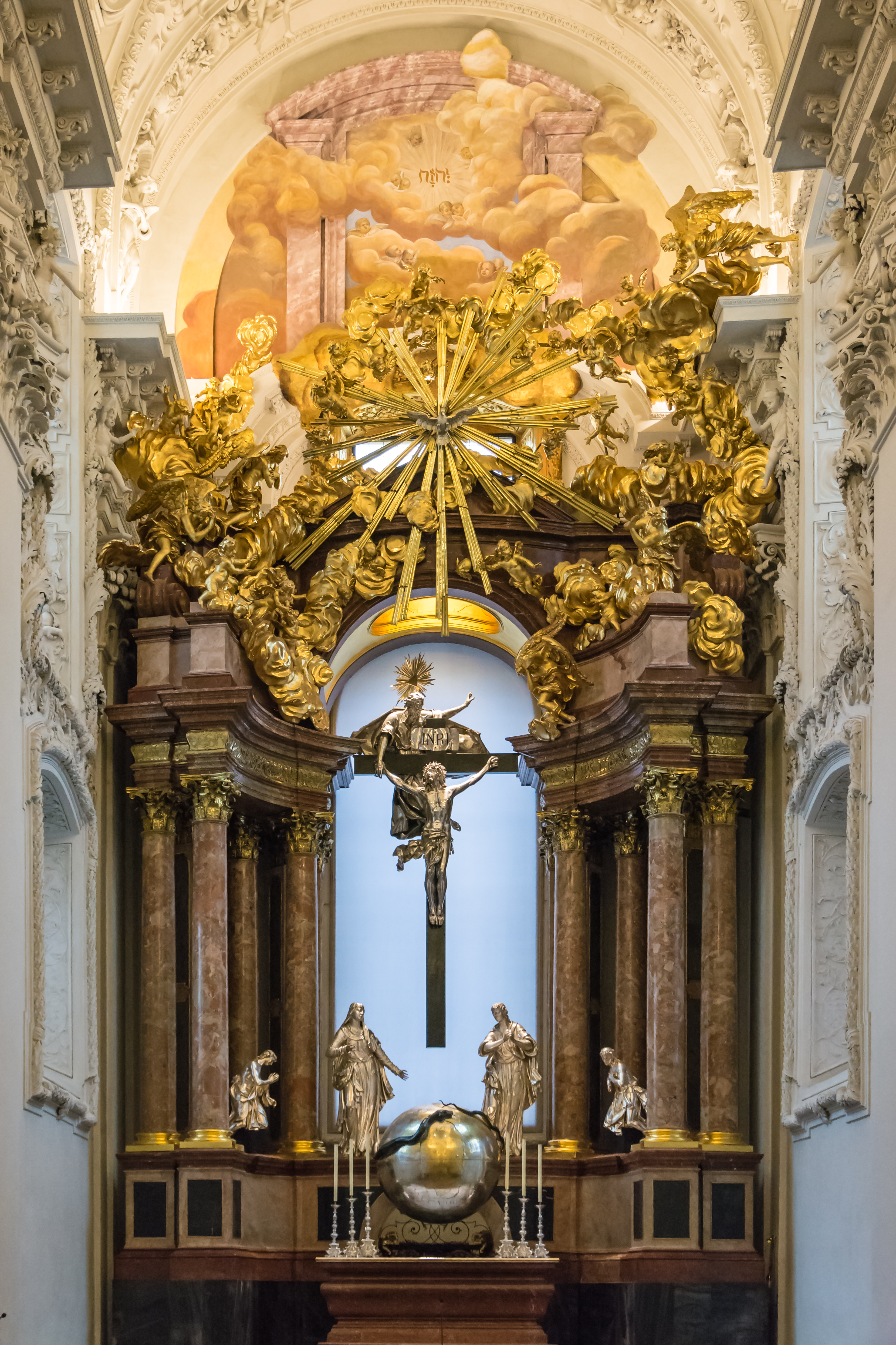 High altar of Mariazell Basilica, Styria, Austria